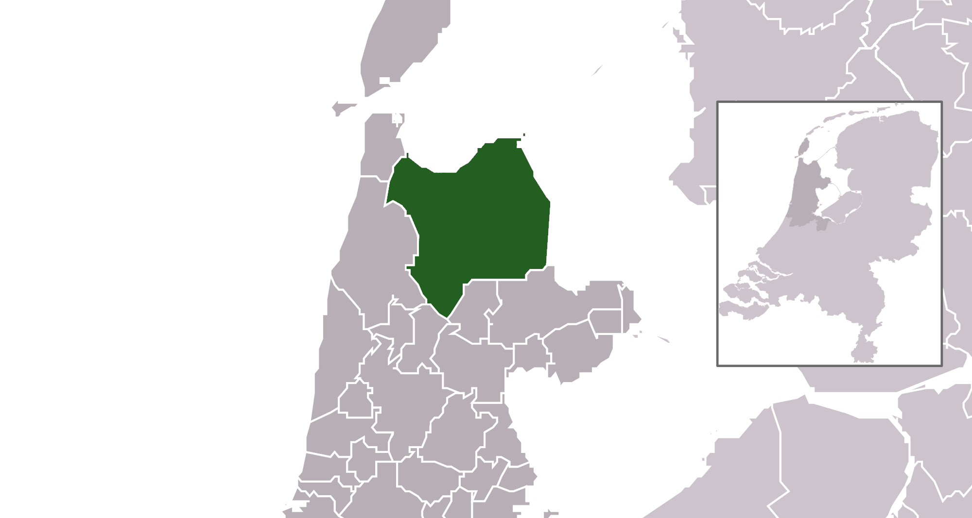 Location maps for the 441 municipalities in the Netherlands. Boundaries 1/1/2009 Automatically generated with script File name contains "Municipality code" (CBS-code) as specified in: [1] Created in svg using coordinate data derived from ESRI data published by Centraal Bureau voor de Statistiek, Voorburg/Heerlen. ([2]) Color coding and original design (slightly adpated by me) by user Mtcv (2006/2007) ([3]) Updated until January 1, 2014 The copyright holder of this file, Centraal Bureau voor de Statistiek, allows anyone to use it for any purpose, provided that the copyright holder is properly attributed. Redistribution, derivative work, commercial use, and all other use is permitted. Attribution: Centraal Bureau voor de Statistiek This work is free and may be used by anyone for any purpose. If you wish to use this content, you do not need to request permission as long as you follow any licensing requirements mentioned on this page.